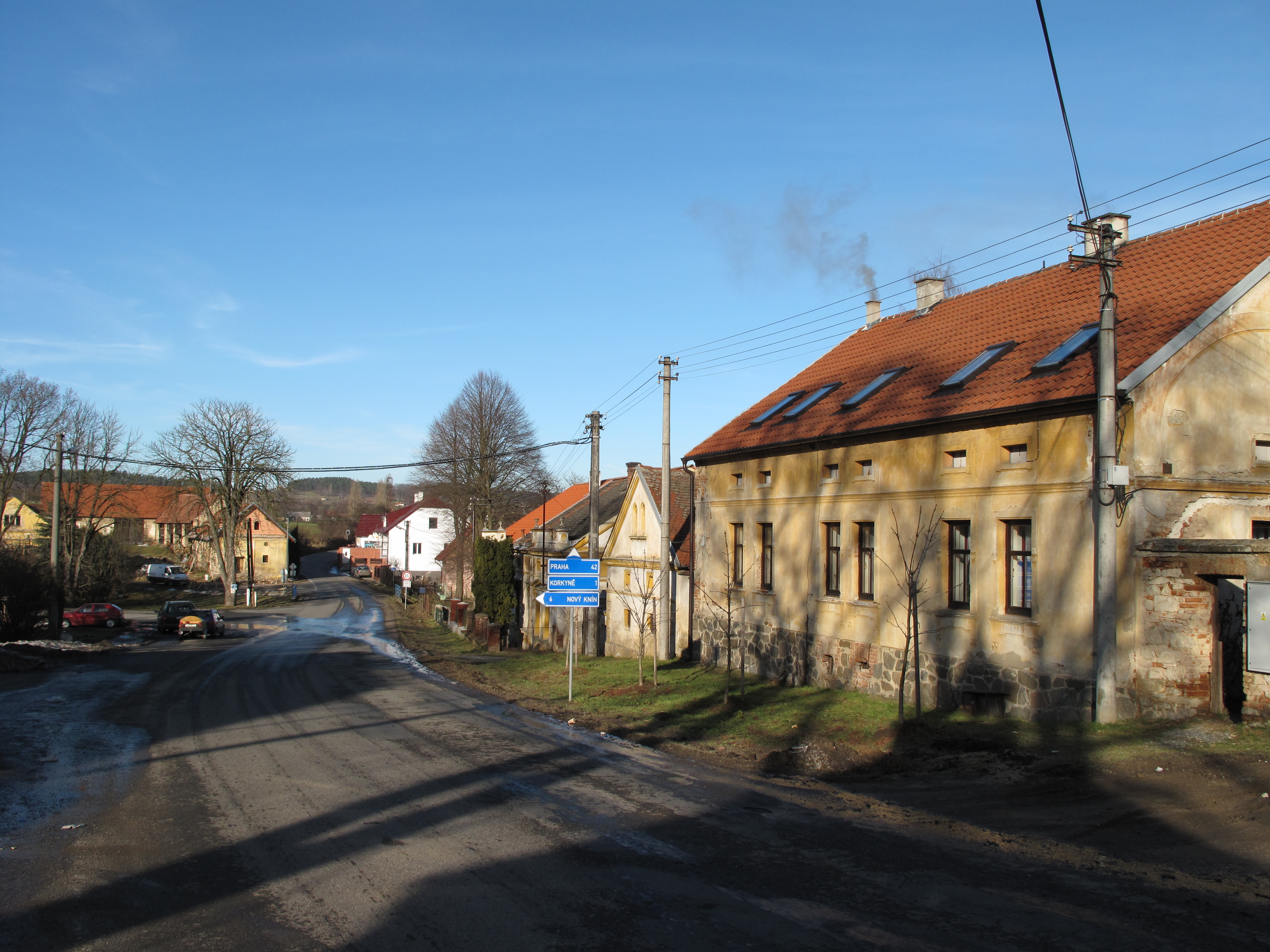 Houses by the road no. 102 in Chotilsko village, Příbram District, Czech Republic.